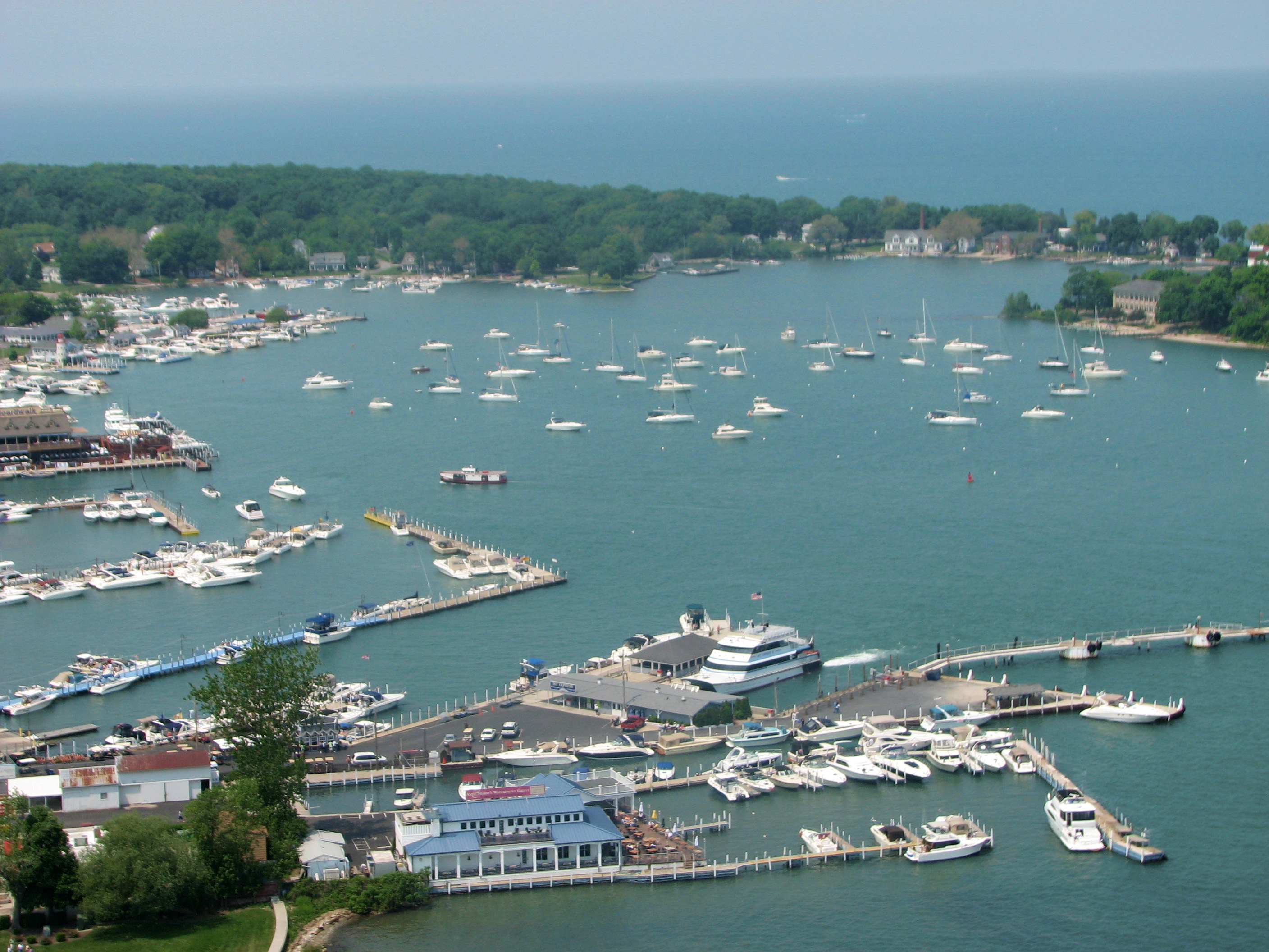 A view of Put-in-Bay, the bay of South Bass Island, home of the village of Put-in-Bay, Ohio. The image is taken from atop Perry's Victory and International Peace Memorial.